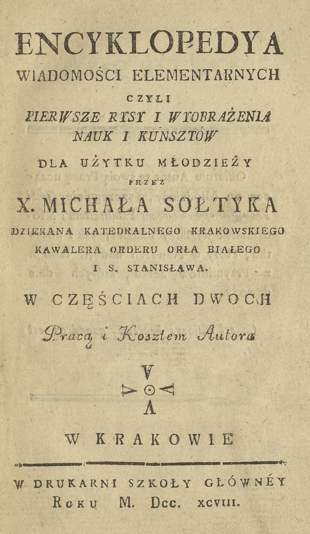 Encyklopedya wiadomości elementarnych.